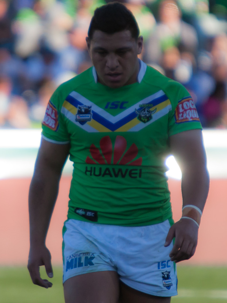 Josh Papalii